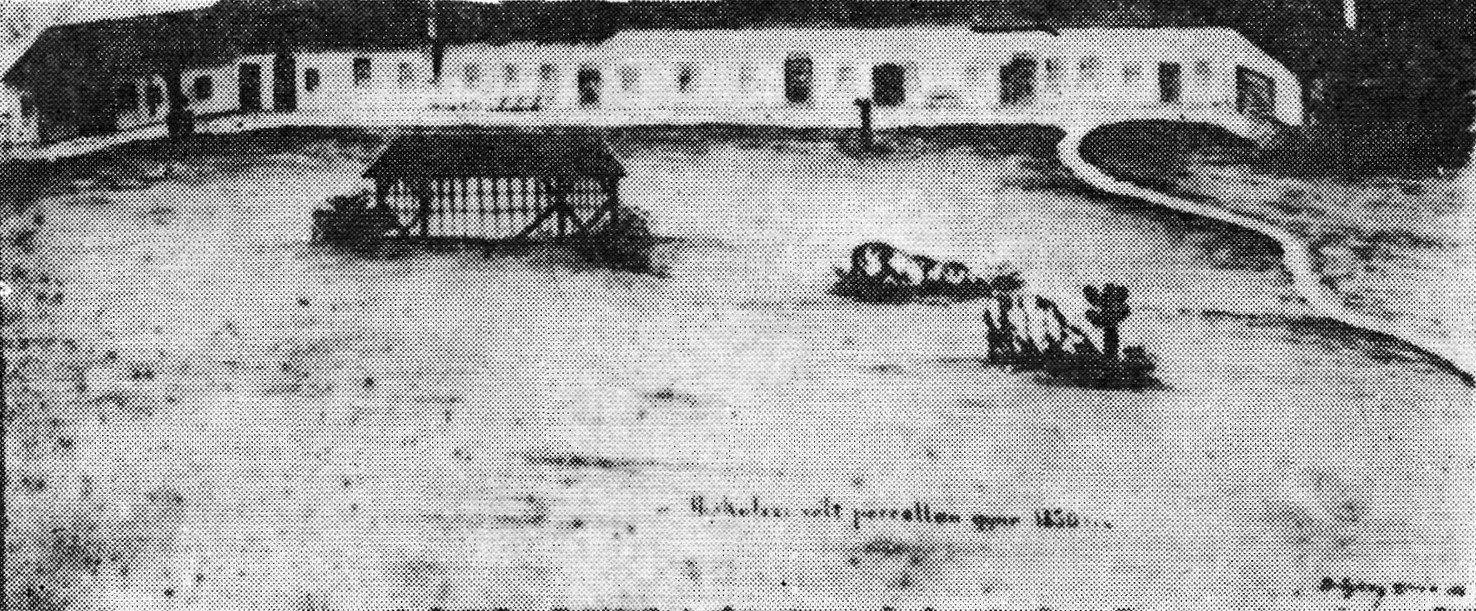 First porcelain factory, Miskolc, 1830